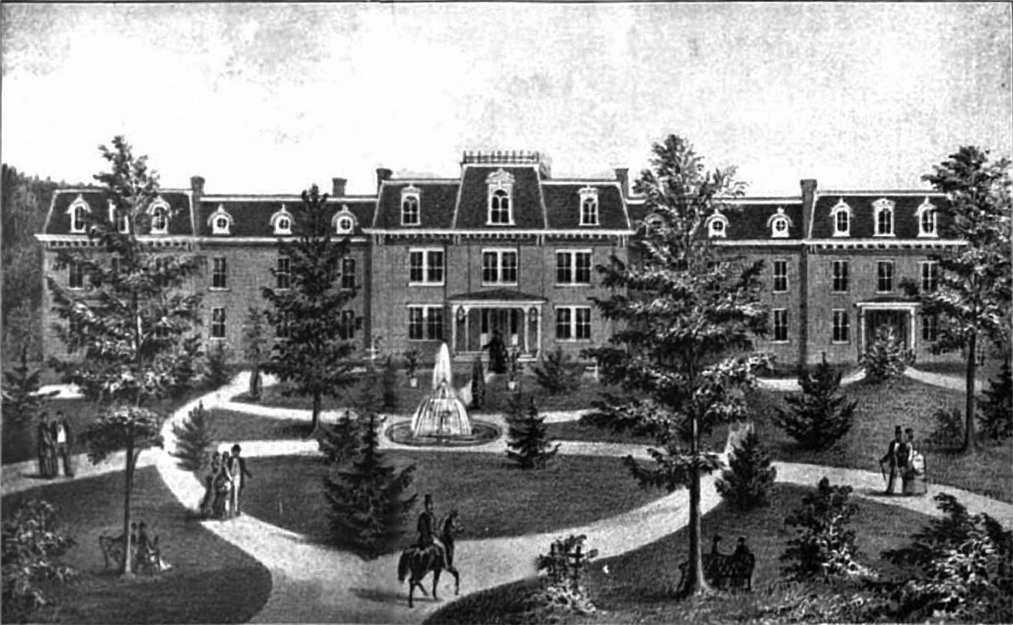 An engraving of the West Virginia Schools for the Deaf and Blind from History of Education in West Virginia (1902). The center of the building was formerly the Romney Classical Institute building built in 1846. This building now serves as the administration building for the West Virginia Schools for the Deaf and Blind.